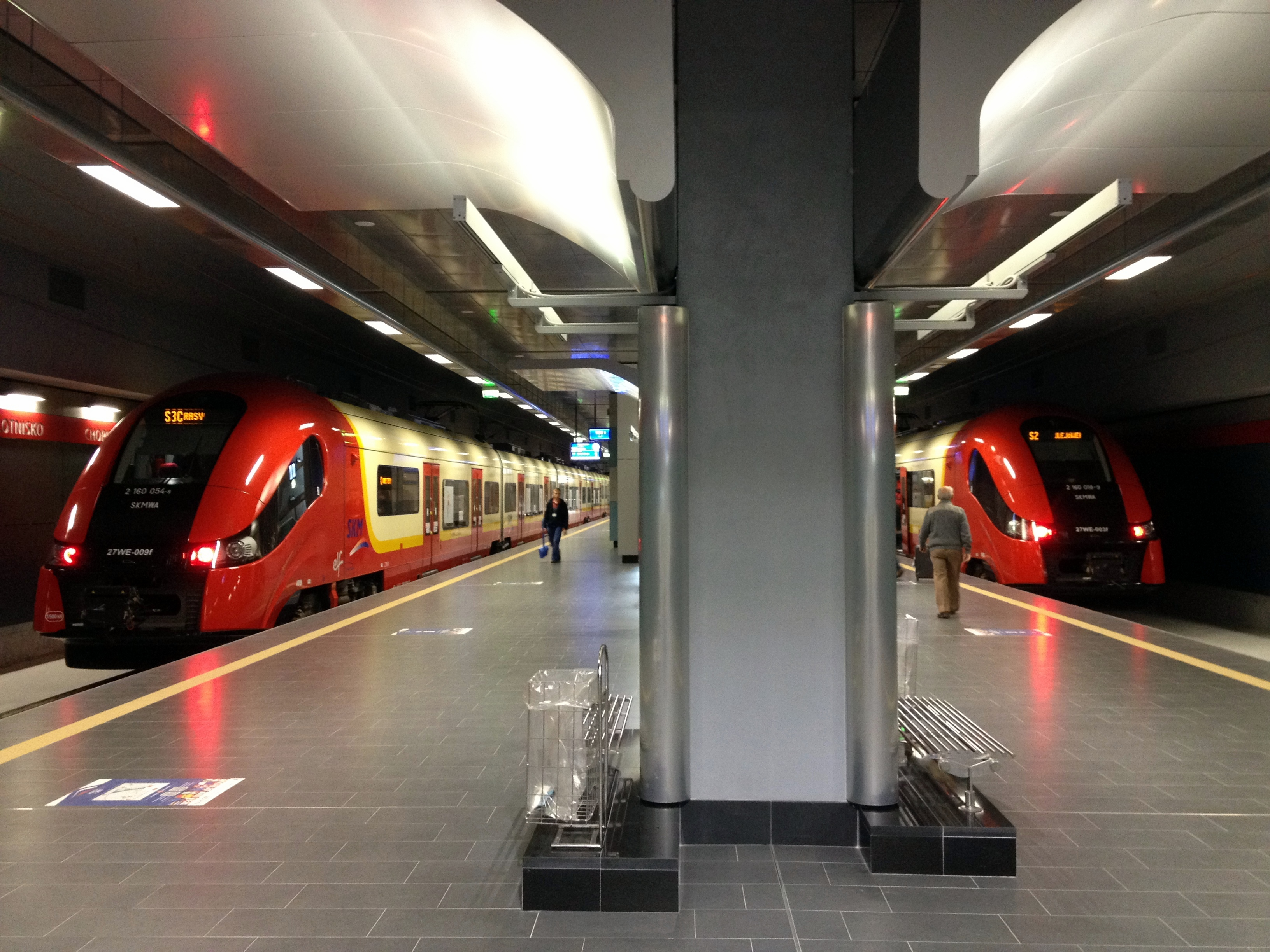 Two Pesa Elf trains of Warsaw's SKM wait at Warsaw Chopin Airport station.